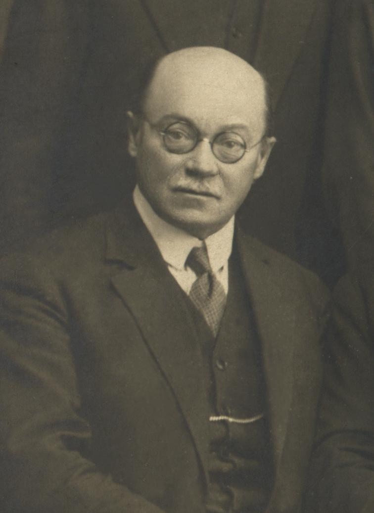 Alexei E. Yanishevsky, Russian neurologist